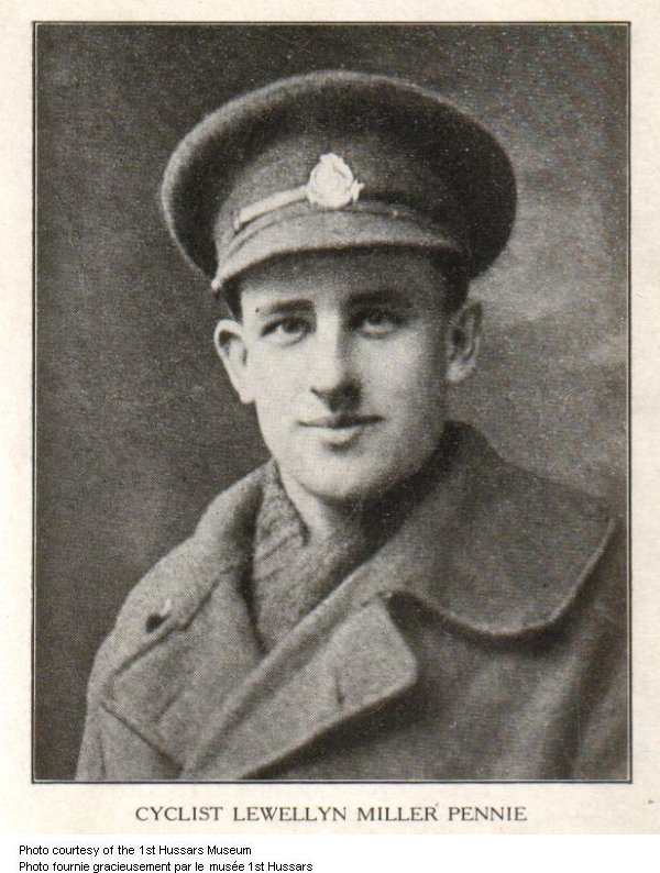 Photo of Pte Llewellyn M. Pennie